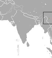 Pygmy Brown-toothed Shrew (Chodsigoa parva) range